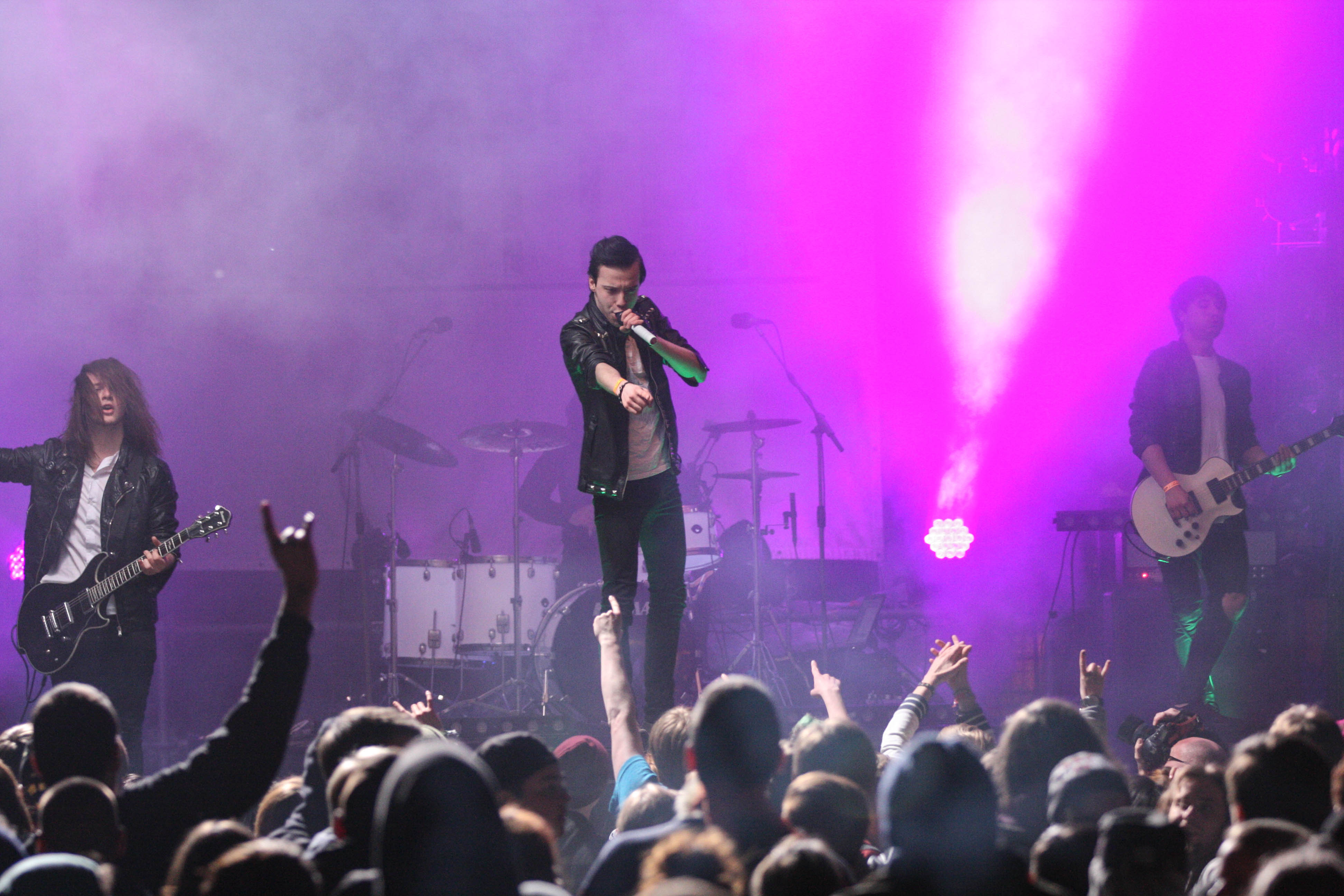 Festivalsommer This photo was created with the support of donations to Wikimedia Deutschland in the context of the CPB project "Festival Summer".